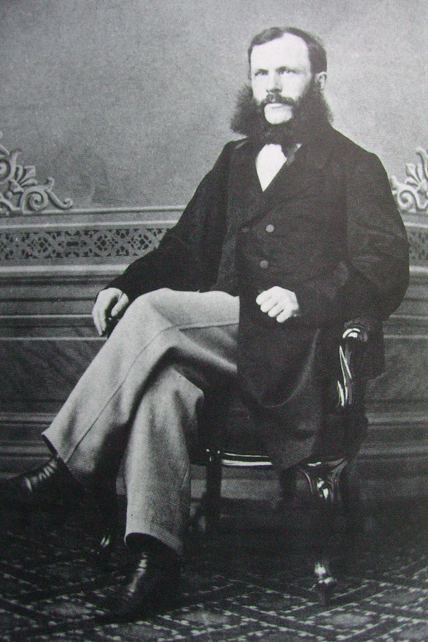 Picture of Karl August Bomansson, Finnish archaeologist and archivist